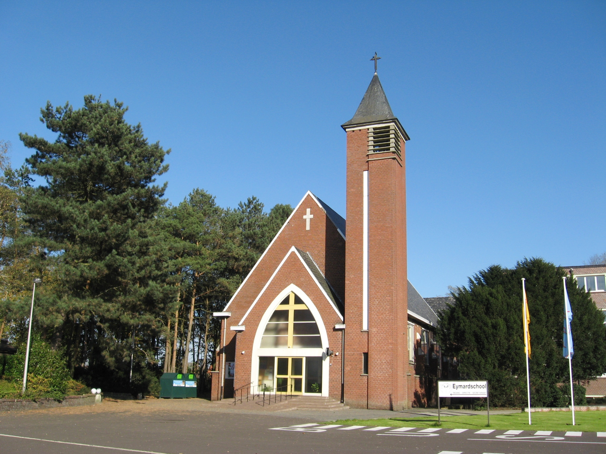 Church of the Holy Communion in Lommel (Kattenbos), Limburg, Belgium